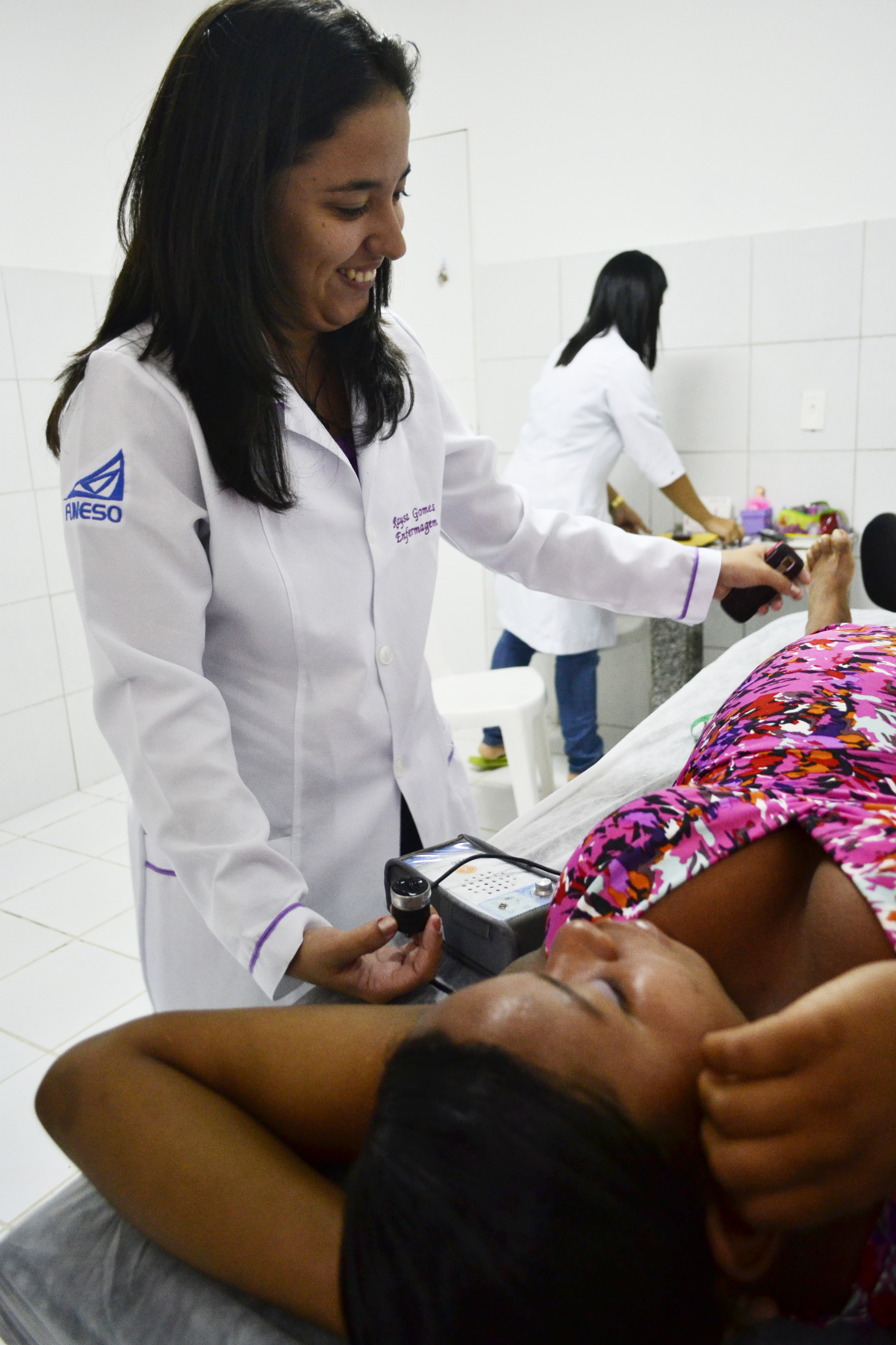 Medical examination in Brazil